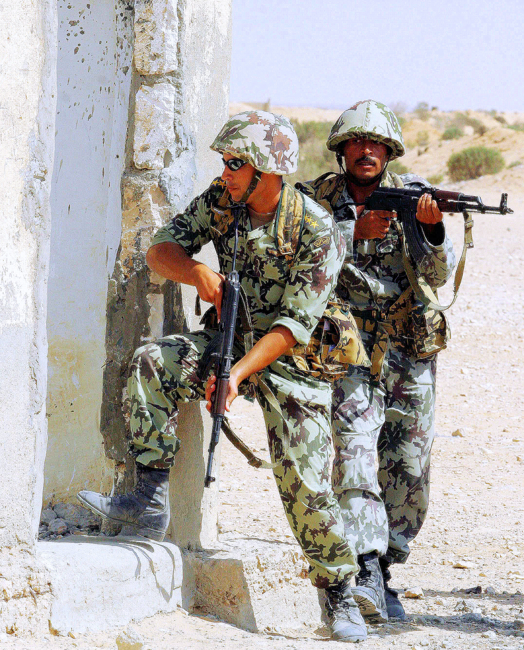 An Egyptian army unit takes part in urban assault exercises during a live-fire exercise, Sept. 17. Many combined military force exercises are conducted during Bright Star 2005.